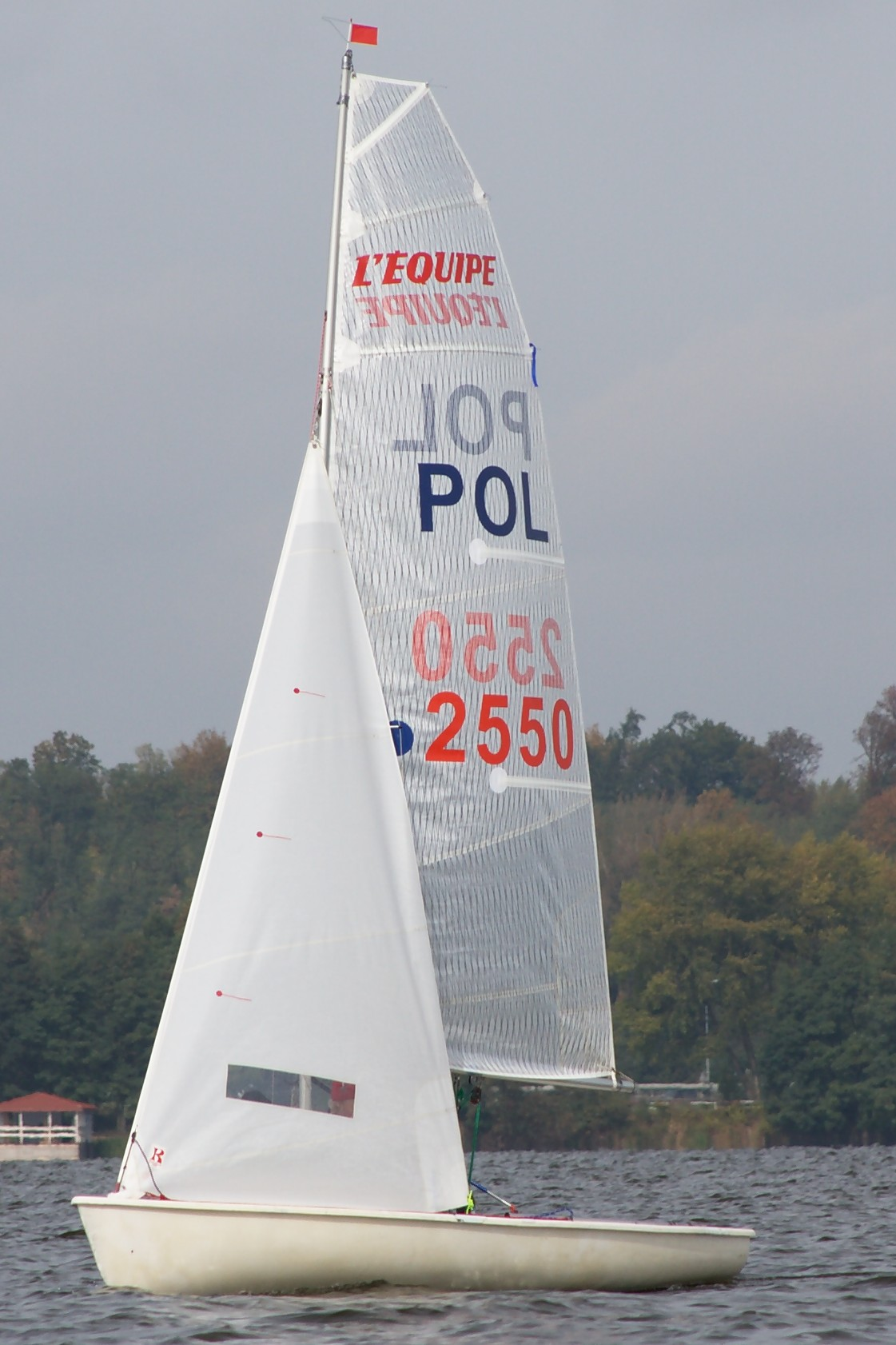 L'Équipe class dinghy, Zegrze lake (Poland)